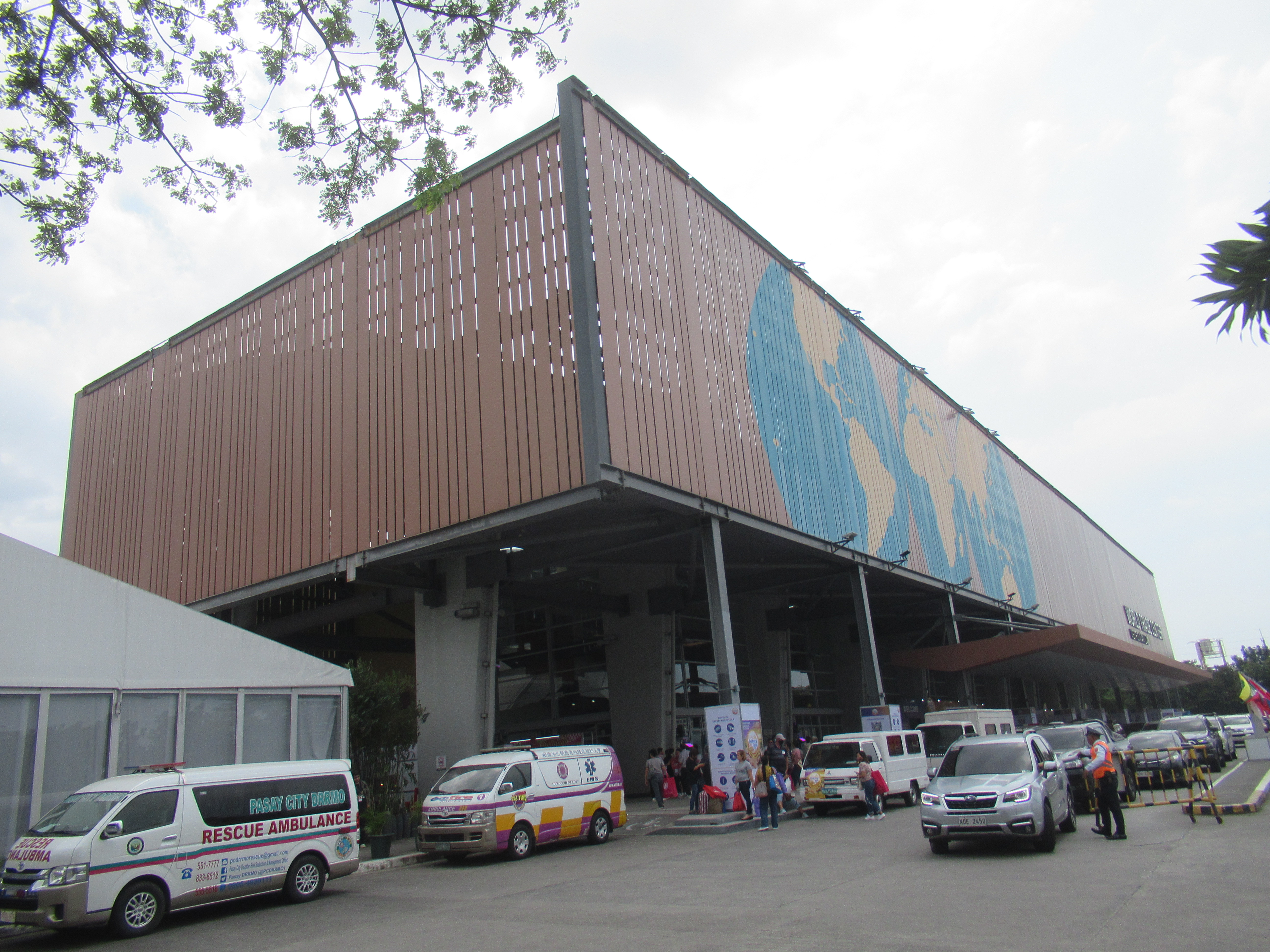 The World Trade Center Metro Manila along Gil Puyat Avenue Extension, Pasay City